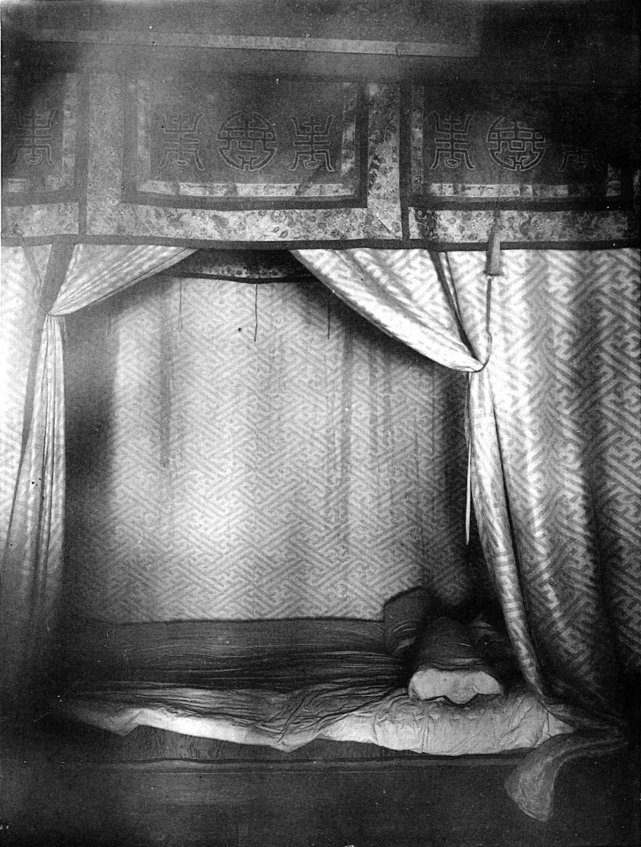 Image from La Chine à terre et en ballon.